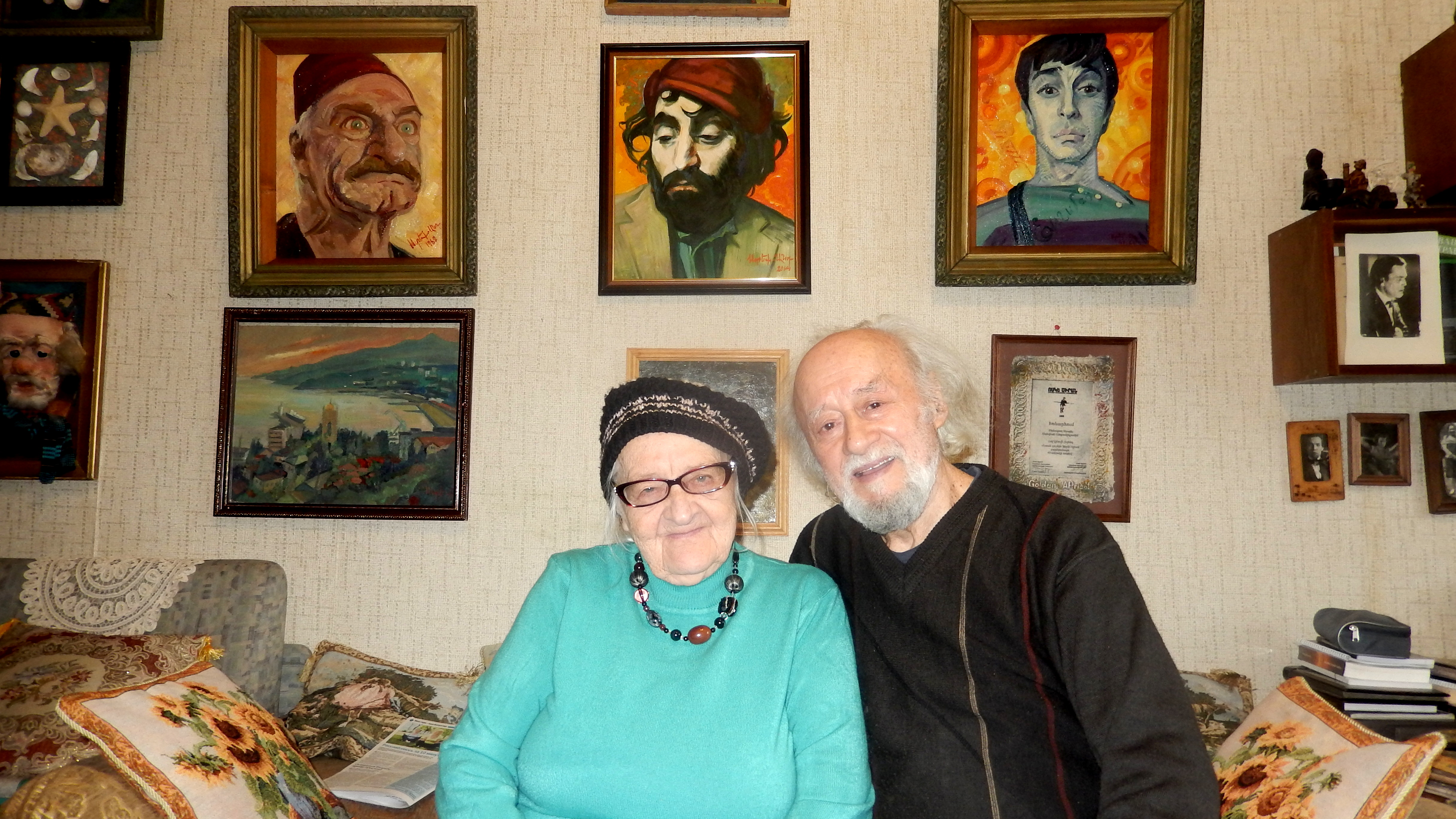 Ստեփան և Կիրարինա Անդրանիկյաններ